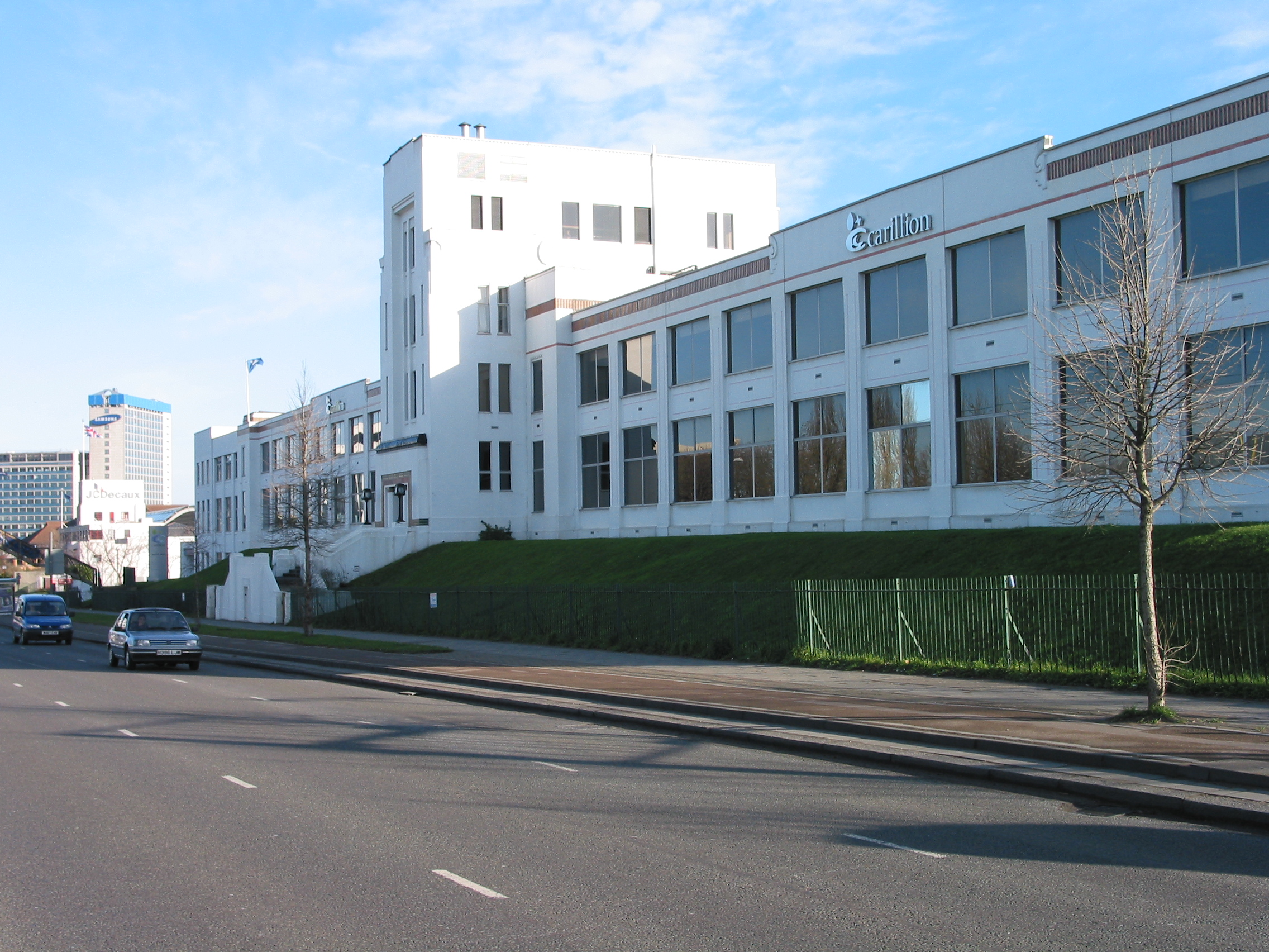 Picture of the frontage of the Art Deco Pyrene Building (now Westlink House), designed by the Wallis, Gilbert and Partners partnership between 1929 and 1930, Great West Road, Brentford, UK photo by myself Date and Time 2005:01:23 13:27:38 Exposure Time 1/400 sec. F Number f/4.0 Copyright © 2005 WLD